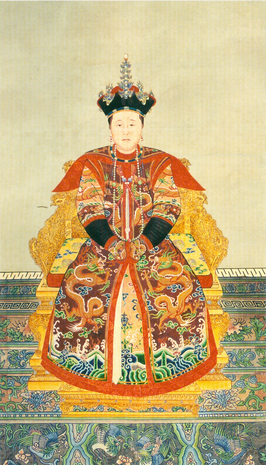 This "Portrait of Consort Zhuang in court costume" (莊妃朝服像) painted on a paper scroll (92 x 53 cm) represents Bumbutai (1613–1688), a Khorchin Mongol of the Borjigit clan who was one of the wives of Hong Taiji (1592–1643), the second emperor of the Qing dynasty. Named "Consort Zhuang" in 1636, she became empress dowager when her five-year-old son Fulin succeeded Hong Taiji as the Shunzhi Emperor in 1643. She is known posthumously as Empress Dowager Xiaozhuang.